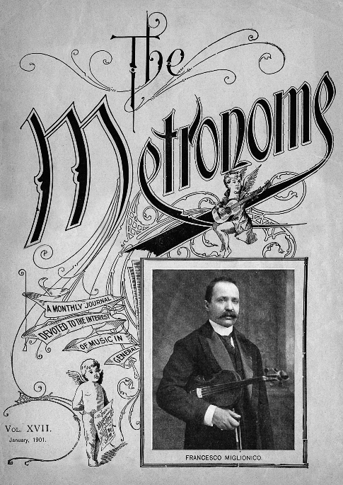 The Metronome magazine Vol. XVII, January 1901. Italian violinist Francesco Miglionico on the cover.